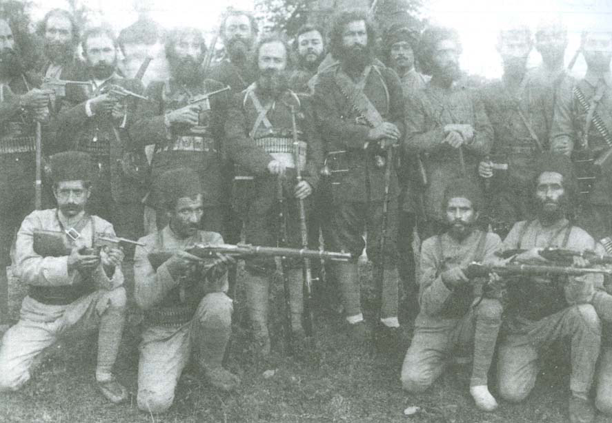 mirza kouchak